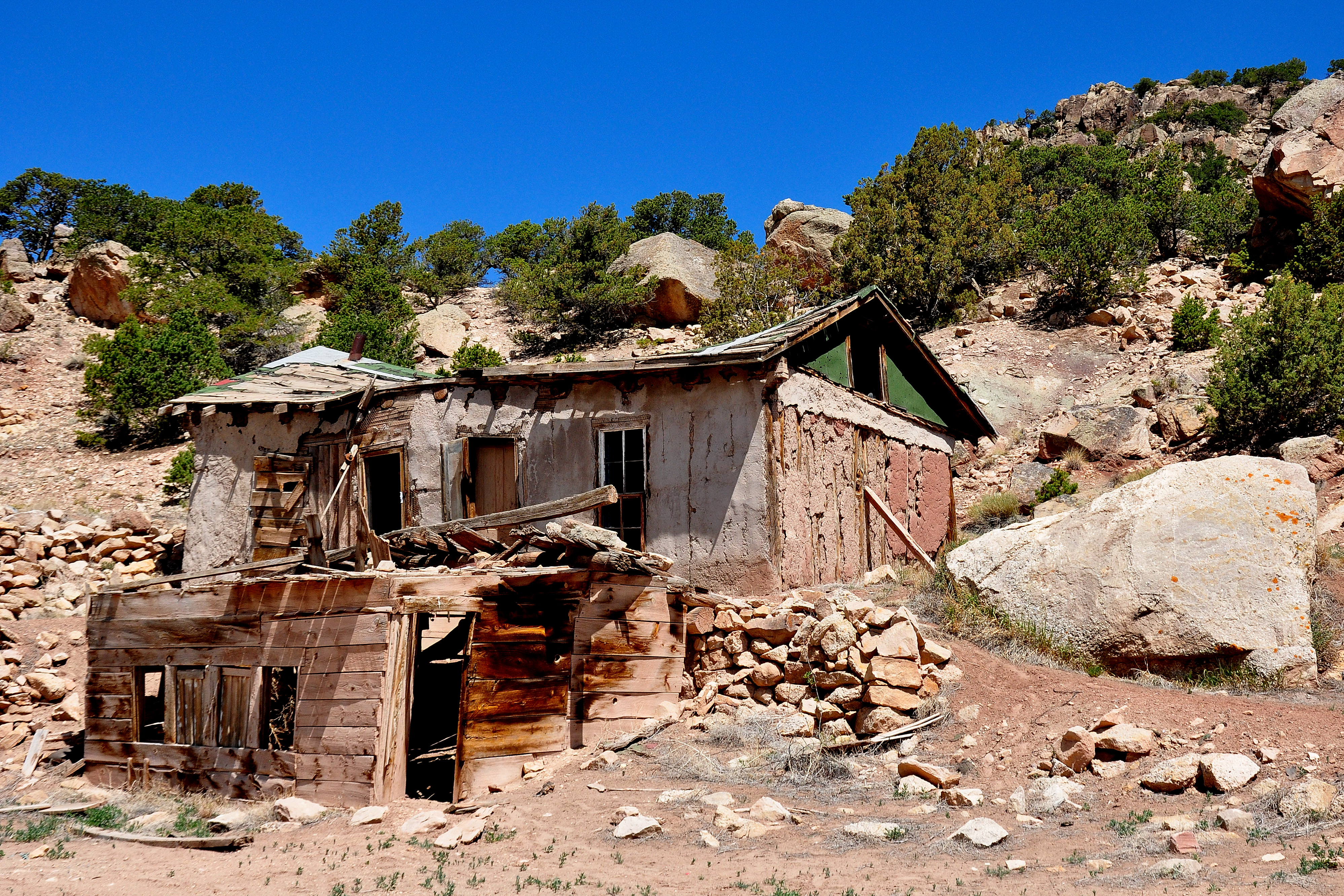 Red Wing, Colorado, a ghost town in Huerfano Co, named after the song; Red Wing. The original name for the town was Christonis.